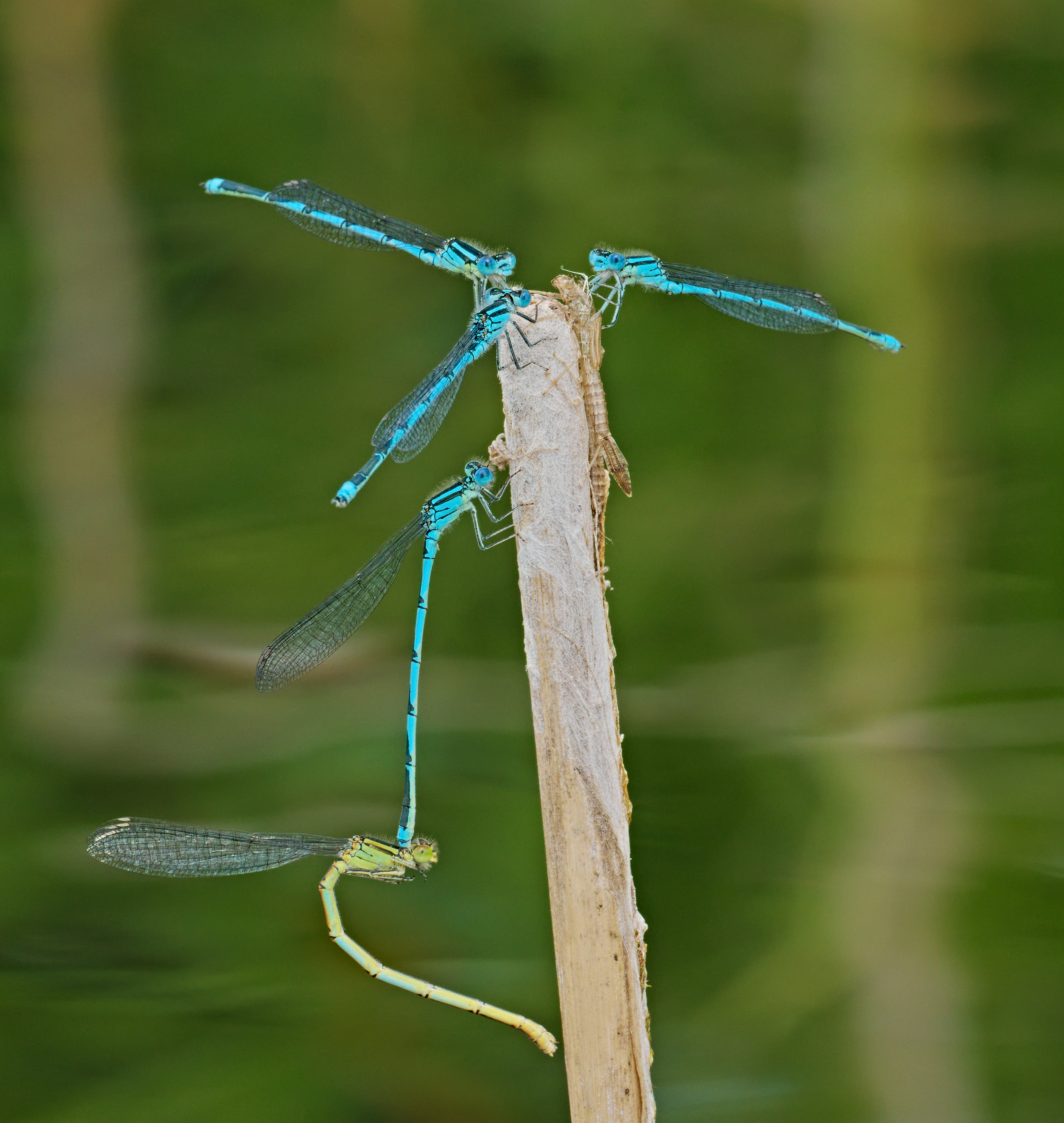 Goblet-marked damselfly - Erythromma lindenii, couples and males. Taken from a boat on the Großer Storkower See, Storkow (Mark), Brandenburg, Germany.